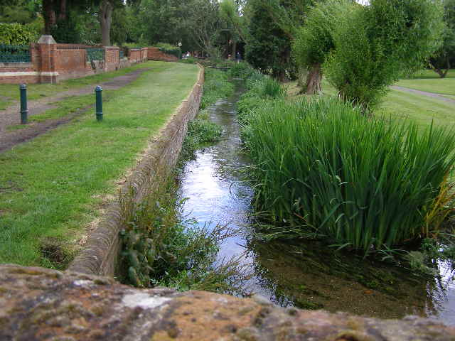 River Misbourne, Old Amersham In this view from the bridge over the River Misbourne, is some of the Chiltern Way signed footpath, and part of the wall of the church grave yard.